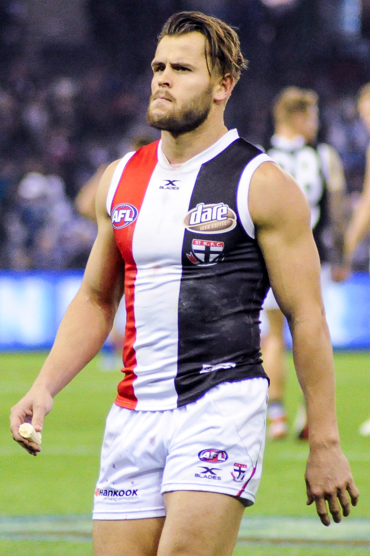 Maverick Weller during the AFL round thirteen match between North Melbourne and St Kilda on 16 June 2017 at Etihad Stadium in Melbourne, Victoria.